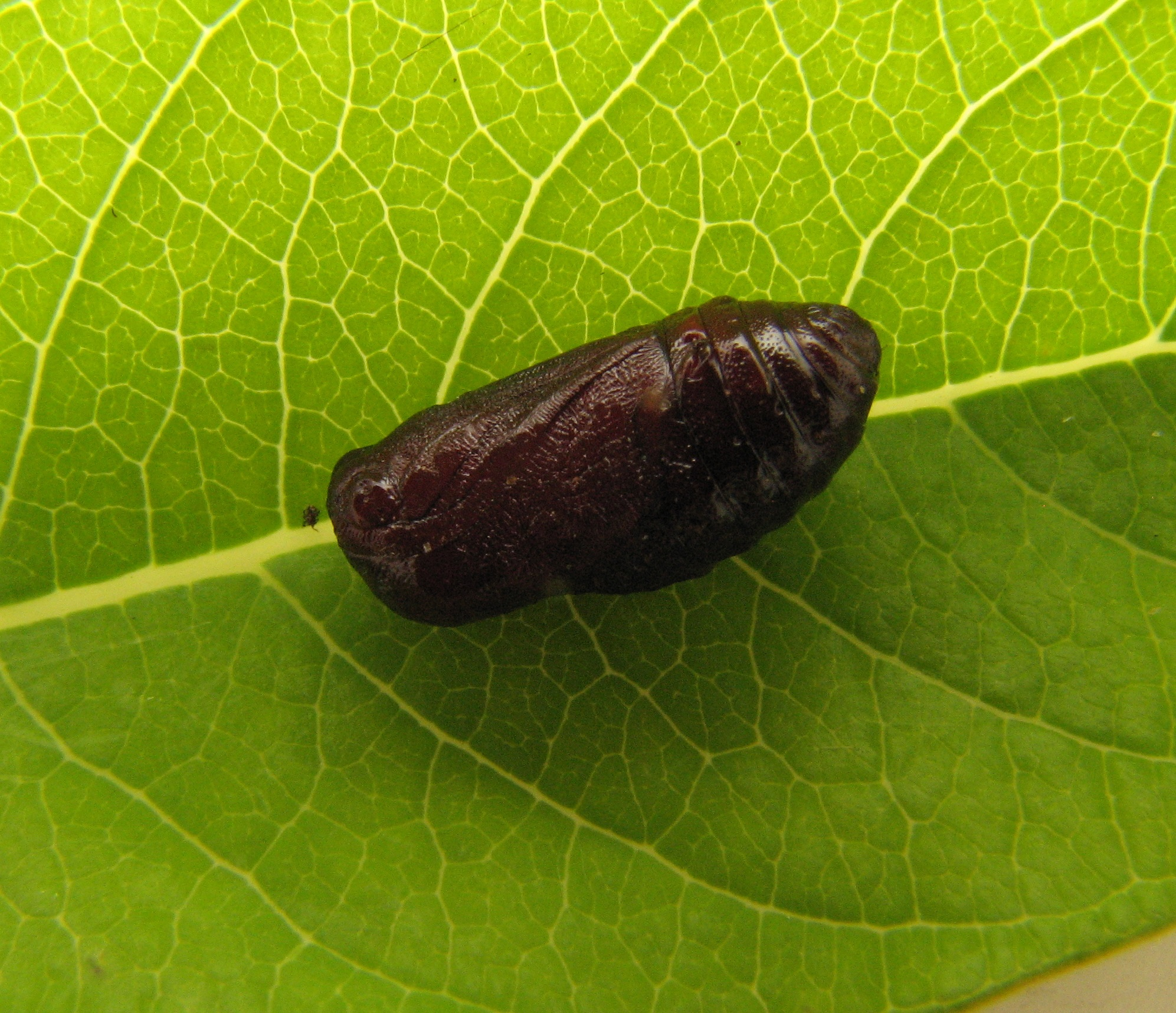 Pupa of Euchaetes egle (milkweed tussock moth) on common milkweed. Churchville Nature Center, Bucks County, Pennsylvania, USA.